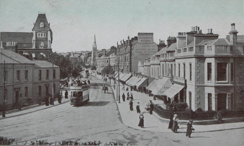 Plymouth Corporation Tramways car 23 turns into Mutley Plain on its way to Peverell.